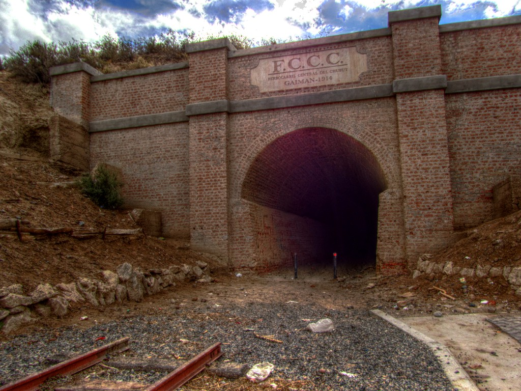 View of the old train tunnel entrance